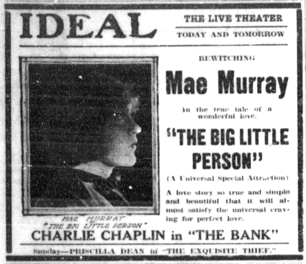 The Big Little Person was a 1919 American silent romantic drama film produced and distributed by Universal Pictures. This is a contemporary newspaper advertisement for the film.